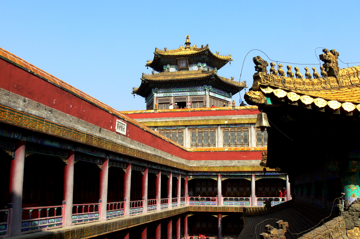 Cihangpudu building, Putuo Zongcheng temple, completed in 1771. 中文（中国大陆）: 普陀宗乘之庙慈航普渡，位于大红台群楼平台西北处，是普陀宗乘之庙的至高点。